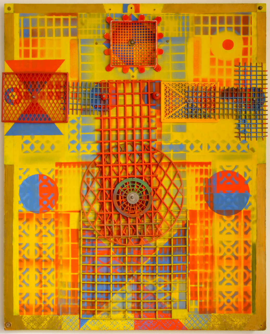 Rudolf Němec, Big Small queen (1987), oil, email, plastic, board